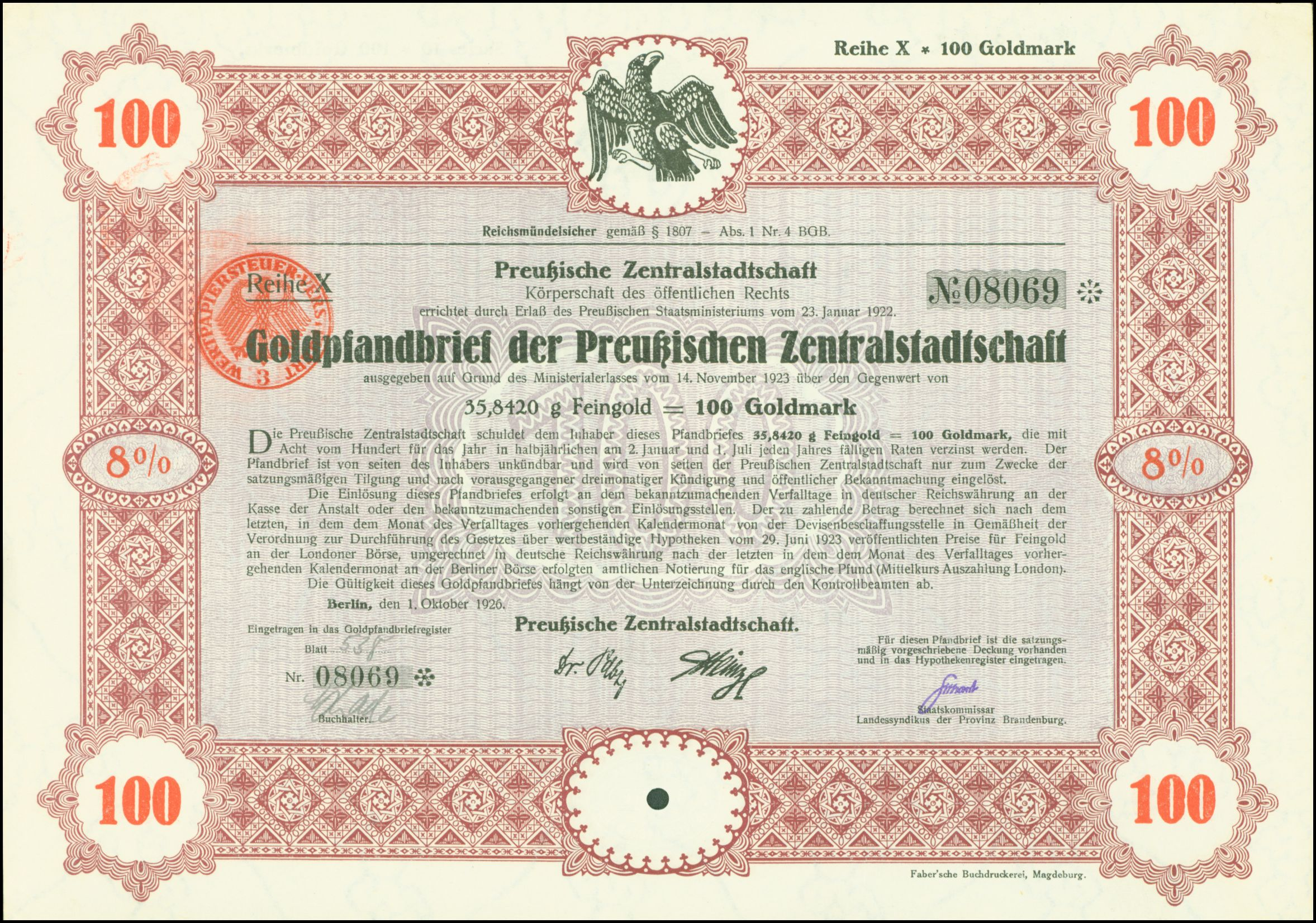 Gold bond of the Preußische Zentralstadtschaft, issued 1. October 1926